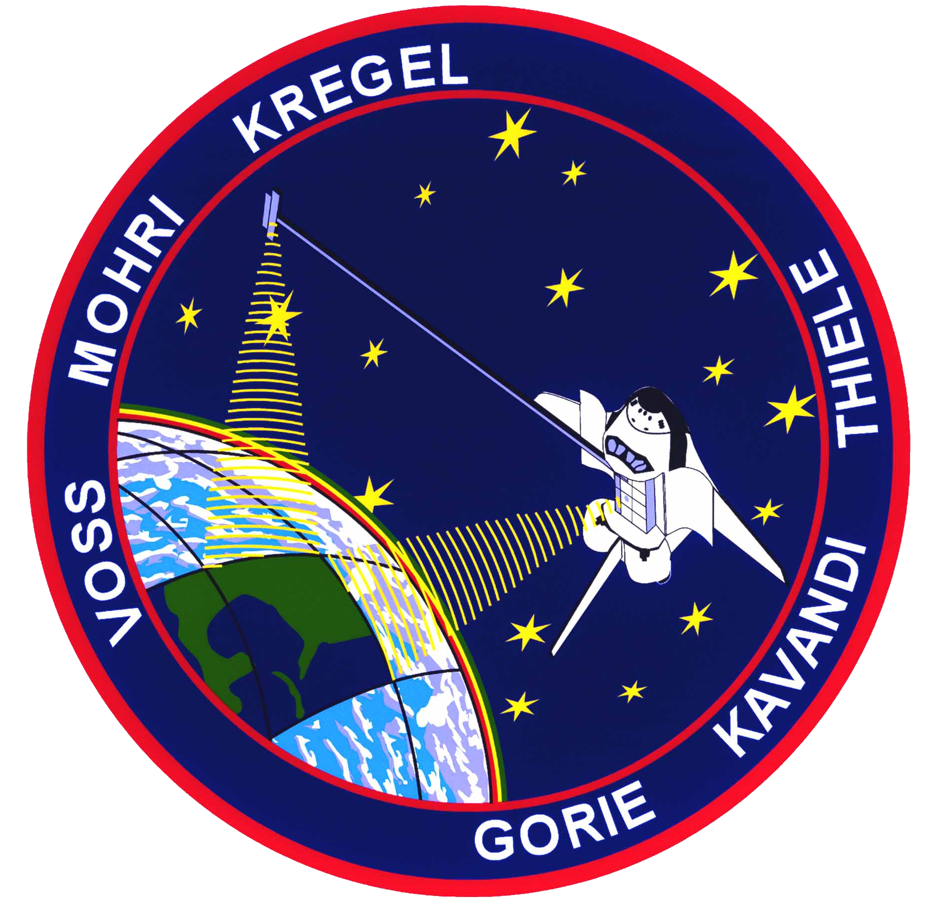 STS099-(S)-001 (JUNE 1999) STS-99 INSIGNIA -- The crew members designed the flight insignia for the Shuttle Radar Topography Mission (SRTM), the most ambitious Earth mapping mission to date. Two radar antennas, one located in the Shuttle bay and the other located on the end of a 60-meter deployable mast, will be used during the mission to map Earth's features. The goal is to provide a 3-dimensional topographic map of the world's surface up to the Arctic and Antarctic Circles. The clear portion of Earth illustrates the radar beams penetrating its cloudy atmosphere and the unique understanding of the home planet that is provided by space travel. The grid on Earth reflects the mapping character of the SRTM mission. The patch depicts the Space Shuttle Endeavour orbiting Earth in a star spangled universe. The rainbow along Earth's horizon resembles an orbital sunrise. The crew deems the bright colors of the rainbow as symbolic of the bright future ahead because of human beings' venturing into space.